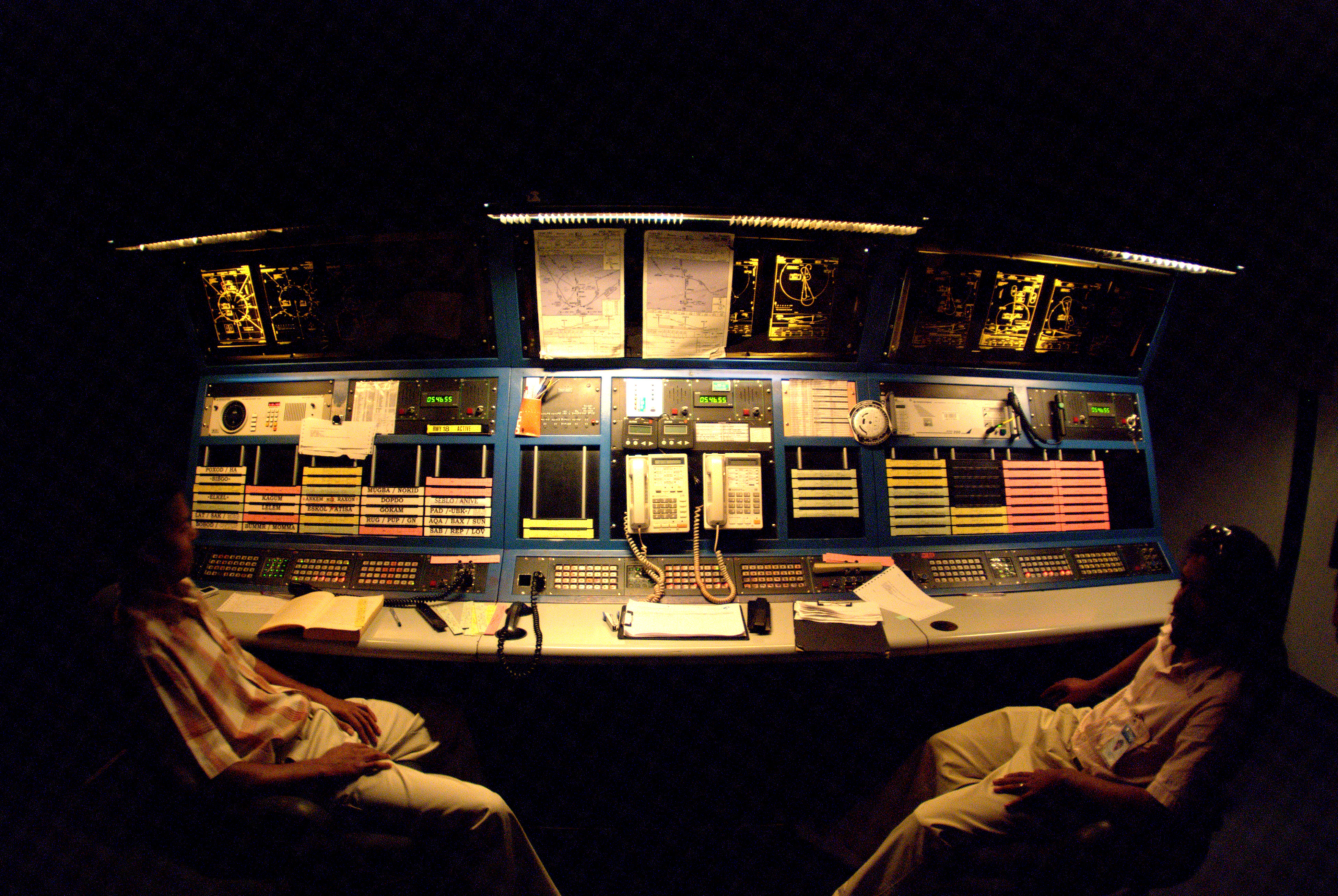 Not a scene you see everyday. People in this windowless room take care of all the flights which enters Maldivian airspace